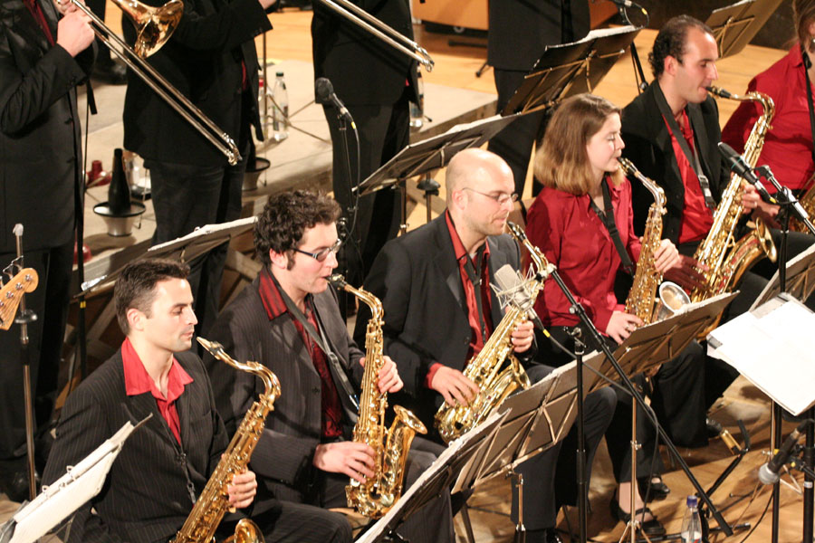 Big Band of the Munich University of Applied Sciences at Concert in the Great Hall of the Ludwig Maximilian University, Munich